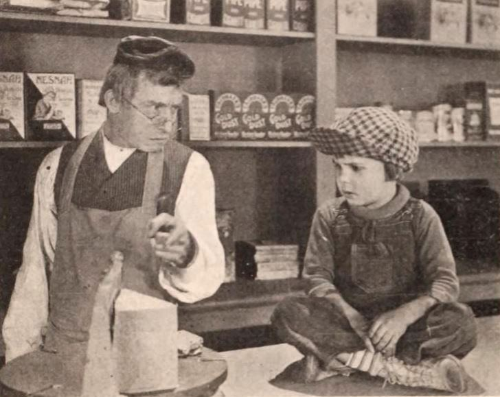 Still from the American film Peck's Bad Boy (1921) with Raymond Hatton and Jackie Coogan, on page 46 of the April 2, 1921 Exhibitors Herald.